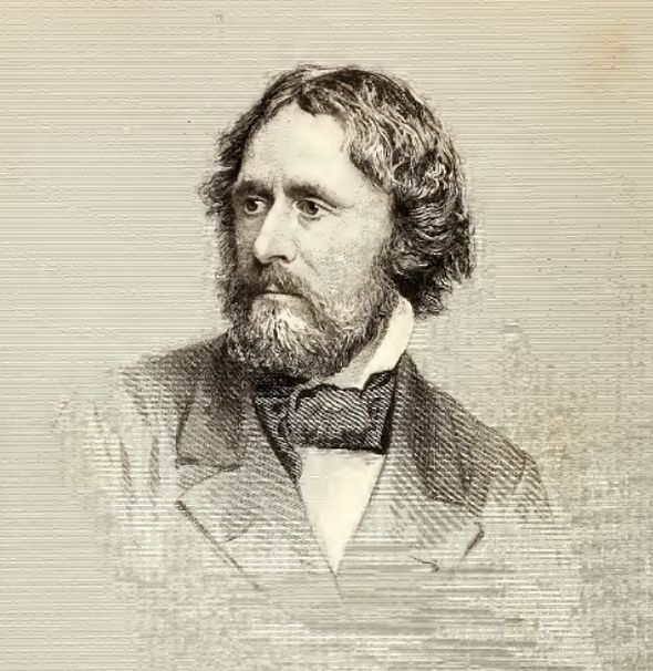 Image of John C. Fremont taken from book of Fremont's expeditions